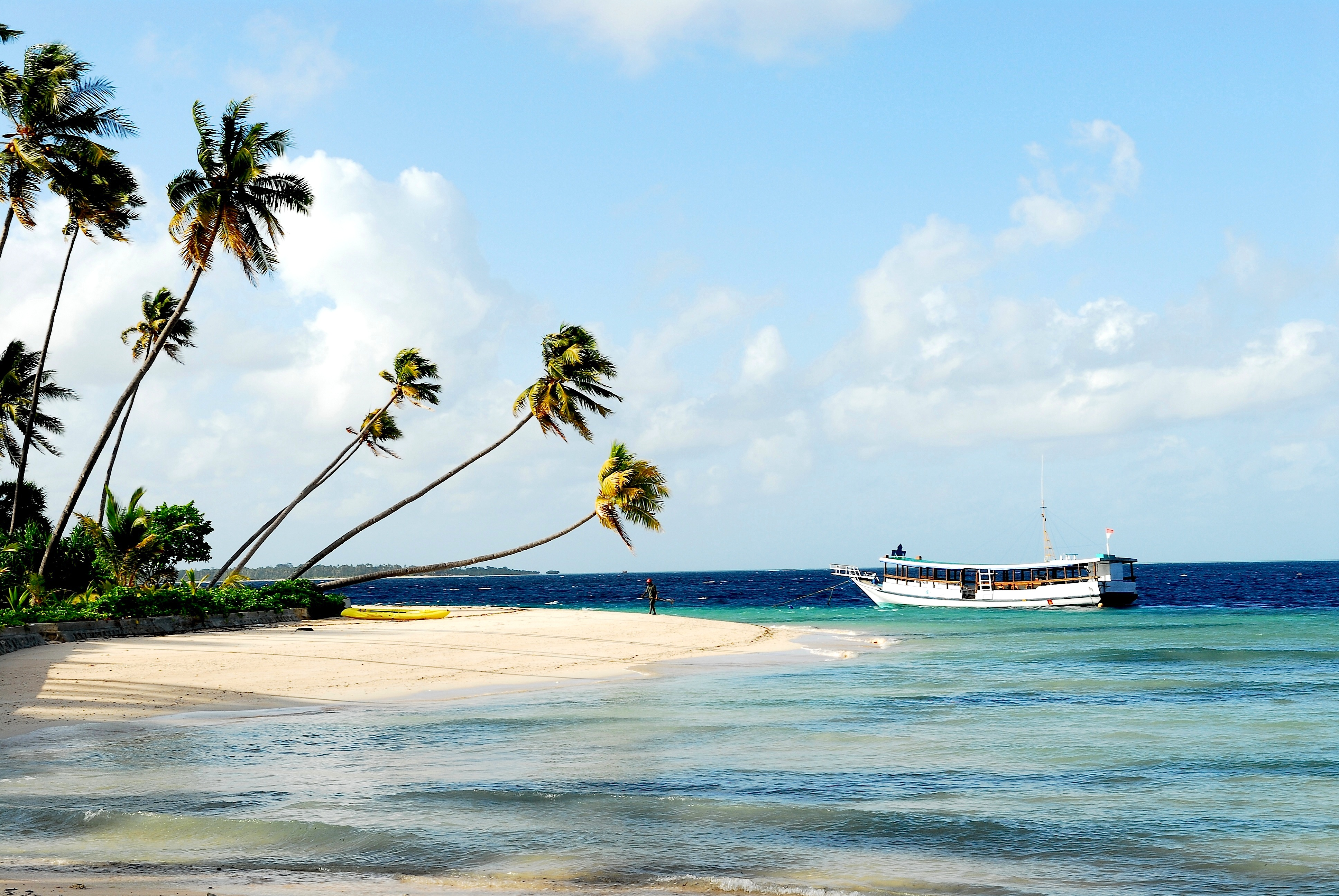 Wakatobi beach, Indonesia